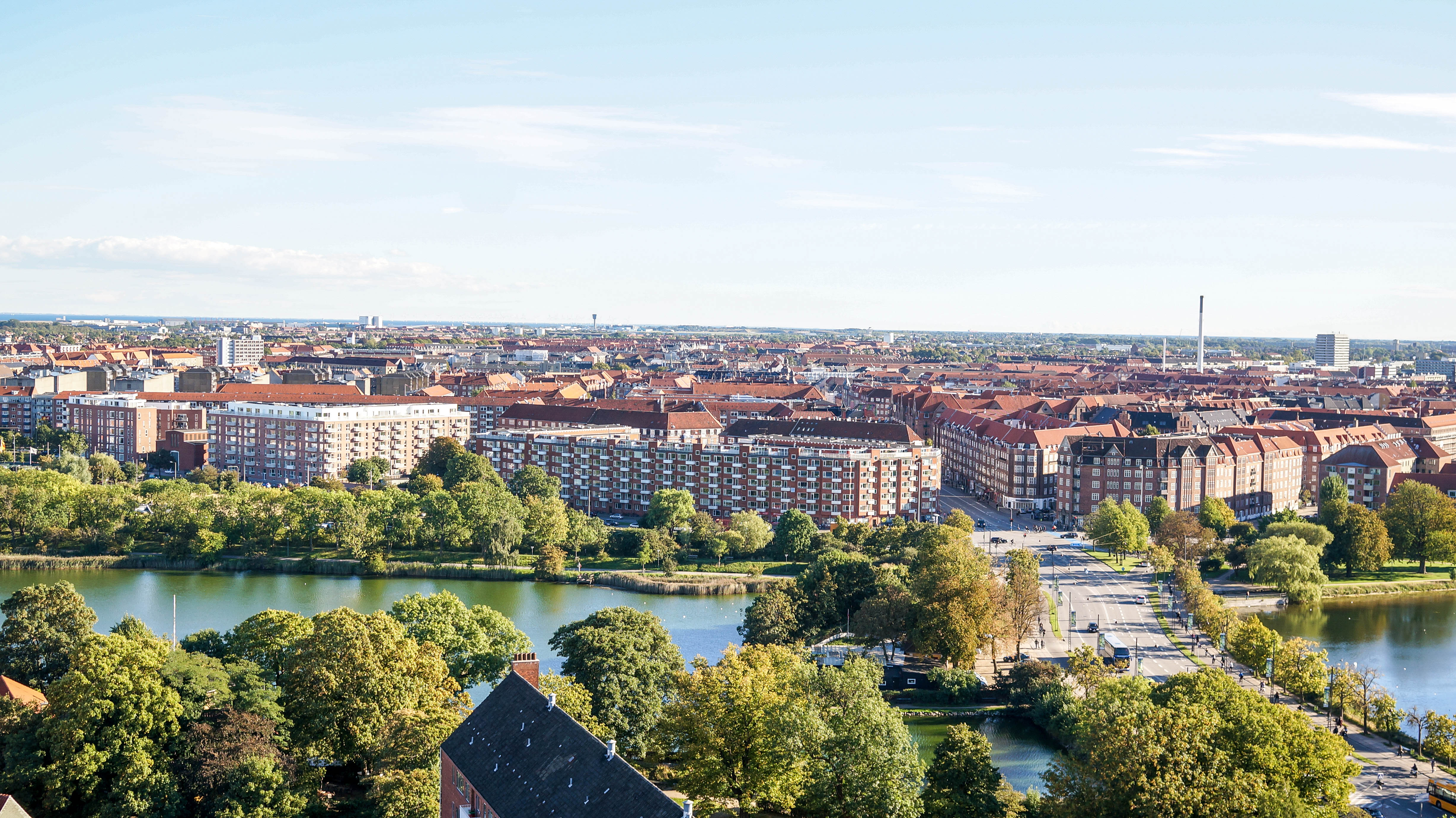 Christianshavns Enveloppe and Vermlandsgade on the far side of Stadsgraven viewed from the tower of Church of Our Saviour in Copenhagen, Denmark